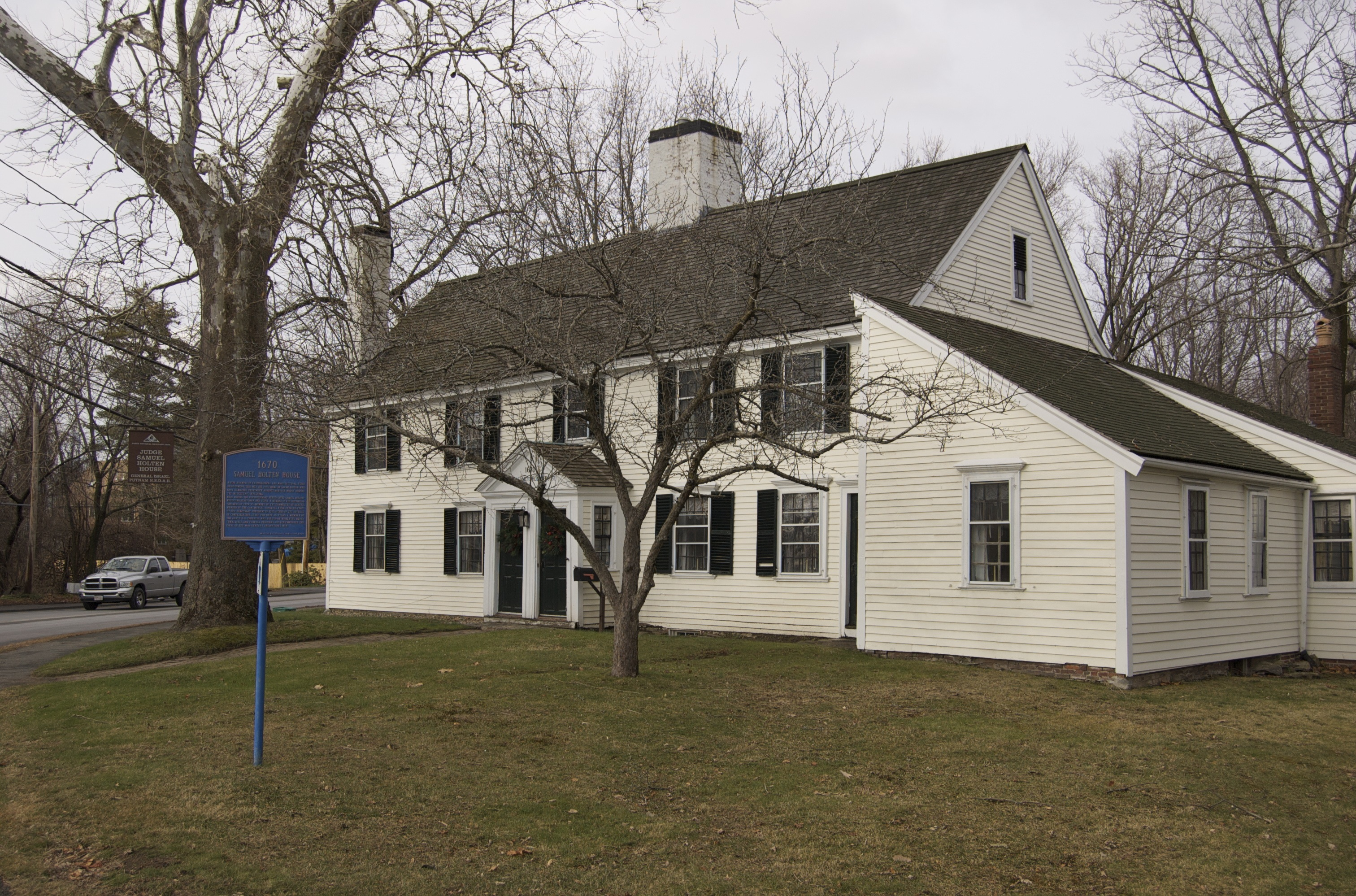 1670 house of Sarah Holten, who testified for the prosecution in the Salem Witch Trials, and later of Judge Samuel Holten, delegate to the Continental Congress.